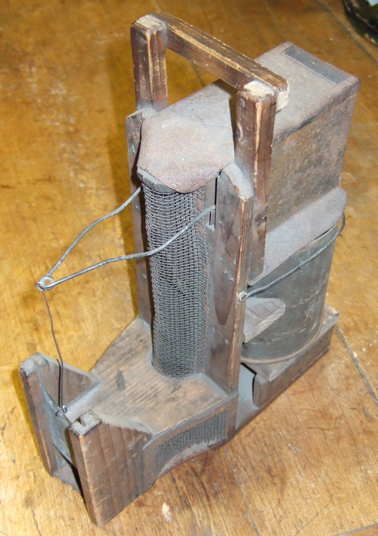 Historical Mousetrap from the Museum der Schwalm, Schwalmstadt (Germany)